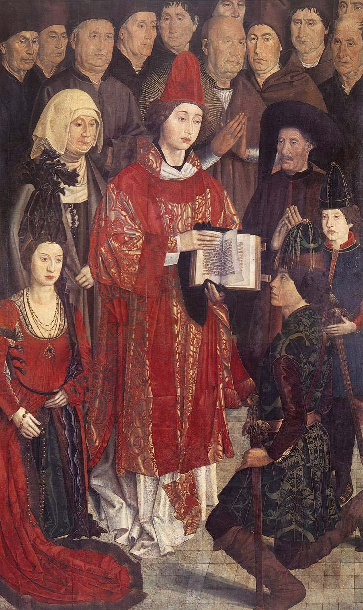 "Painel dos Infantes," panel, by the Portuguese artist Nuno Gonçalves. Courtesy of the National Museum of Antique Art, Lisbon, Portugal.